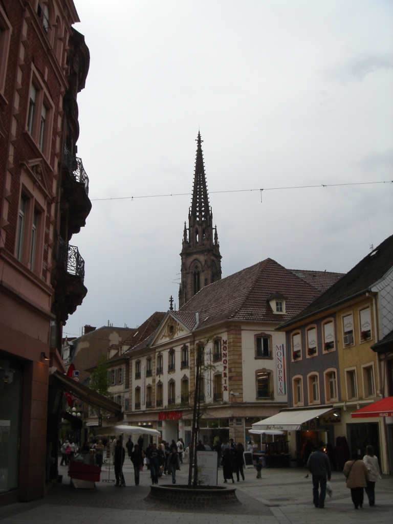 Mulhouse from Rue du Sauvage with Temple Saint-Etienne in background